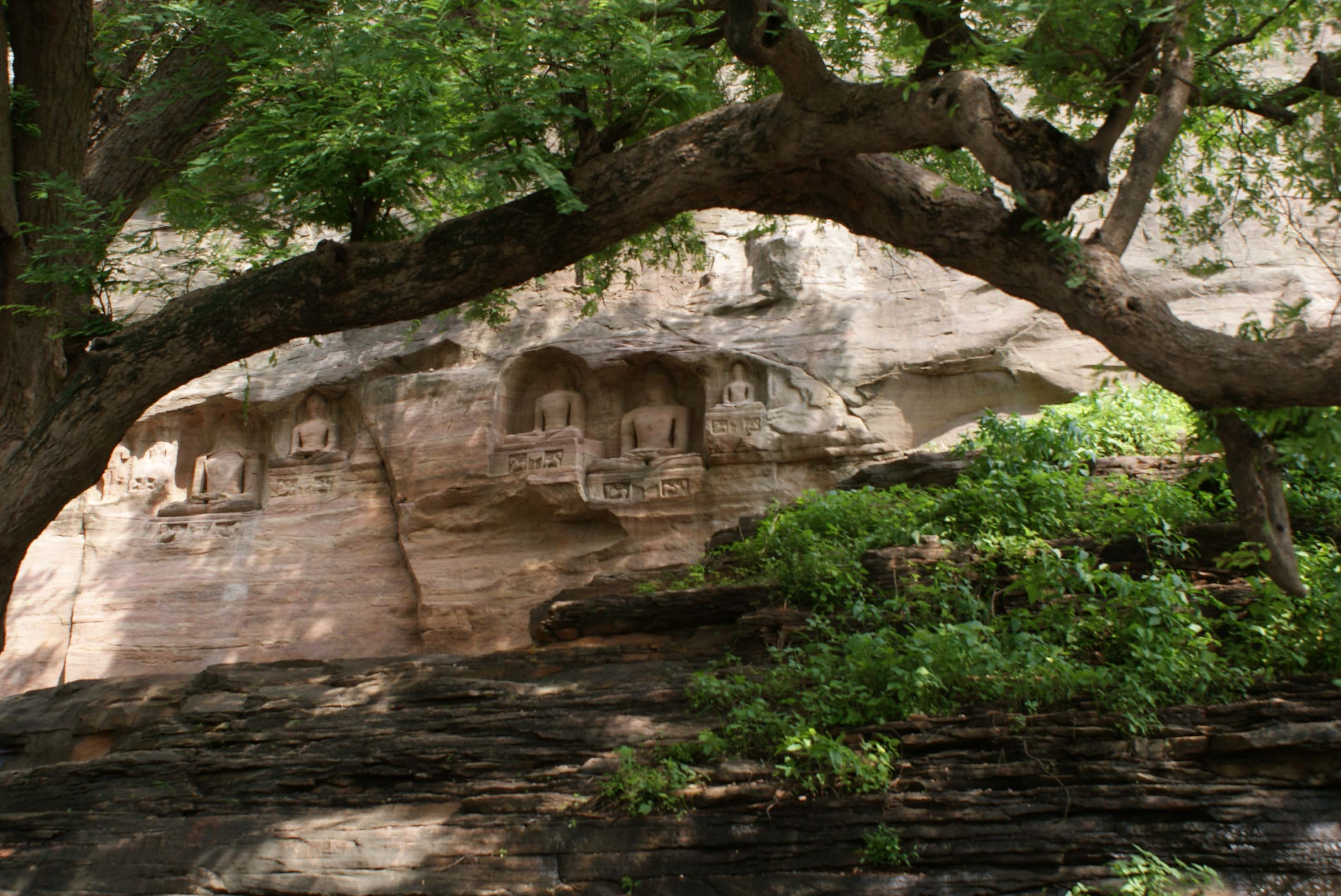 Sculptures carved on the rock in Gwalior Fortress